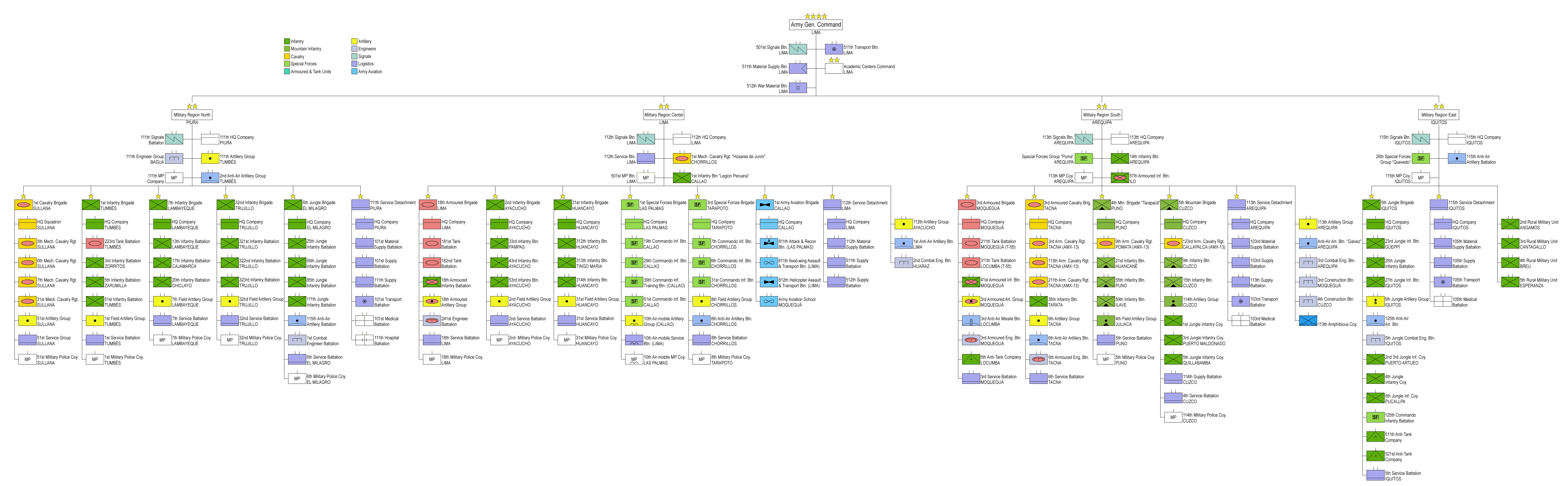 Structure of the Army of Peru- source: Homepage of the Army of Peru and South American OrBats